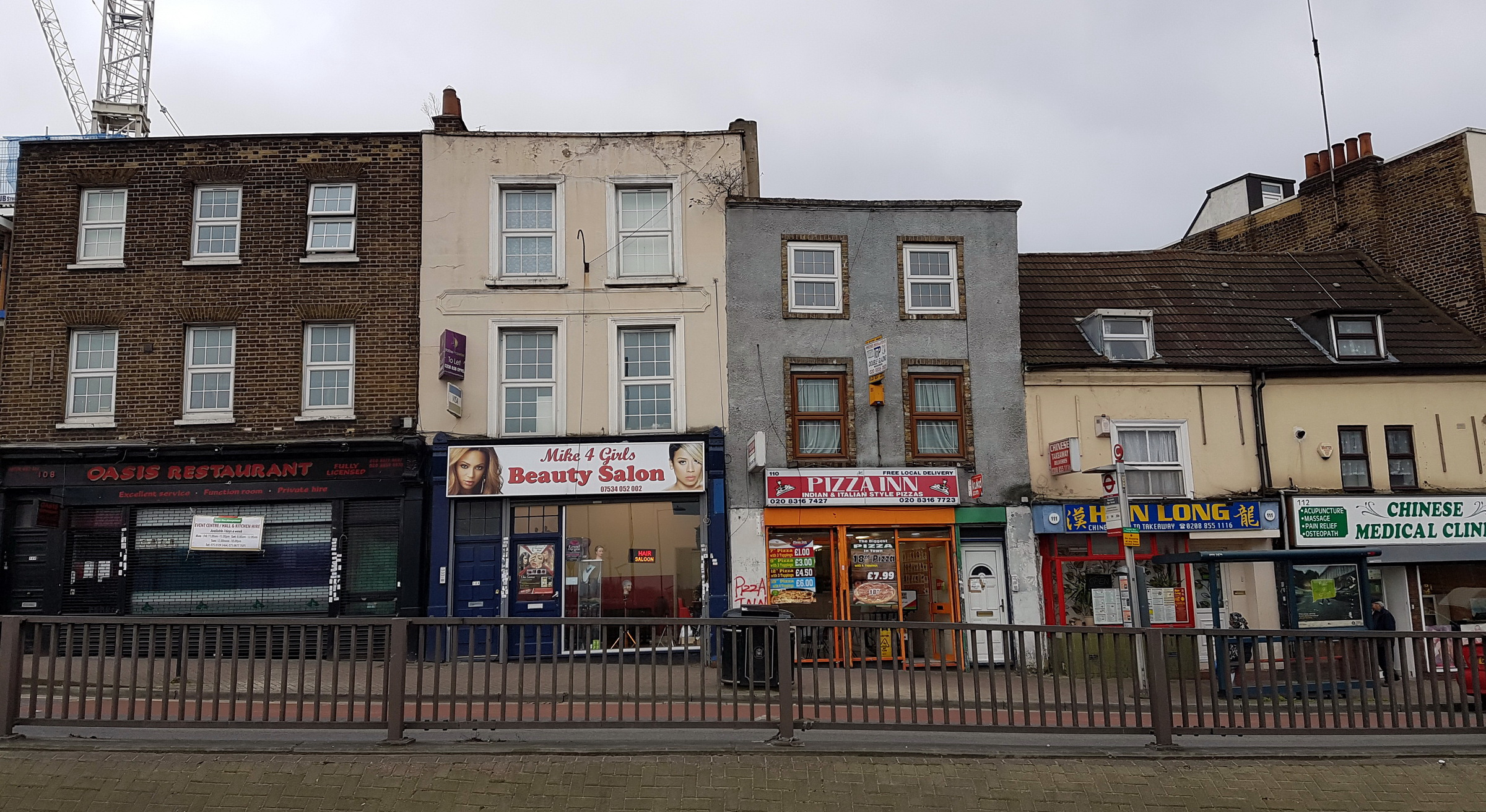 View from the north of Woolwich High Street, Woolwich, South East London, UK.